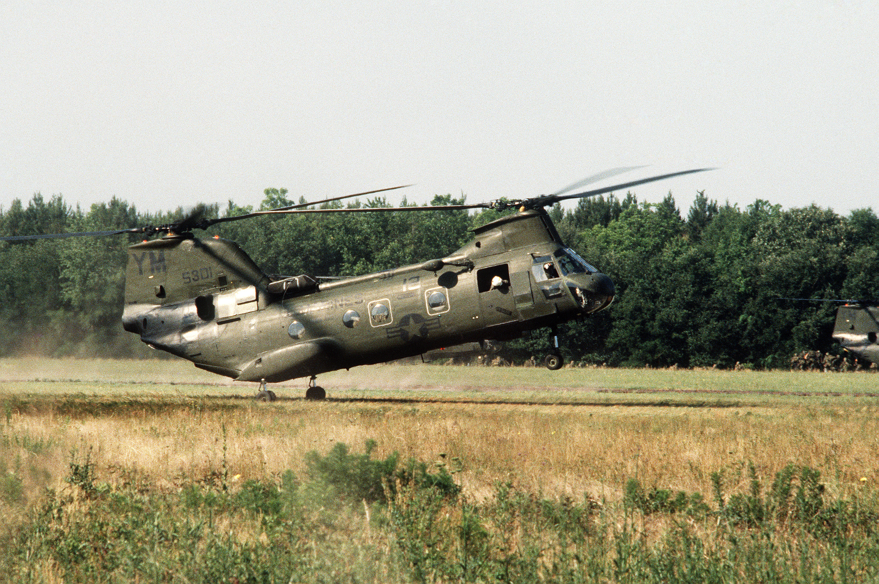 A U.S. Marine Corps Boeing Vertol CH-46F Sea Knight helicopter from Marine Medium Helicopter Transport Squadron HMM-365 Blue Knights lands at Marine Corps Air Station Beaufort, South Carolina (USA), during exercise "Solid Shield '87", 30 April 1985.